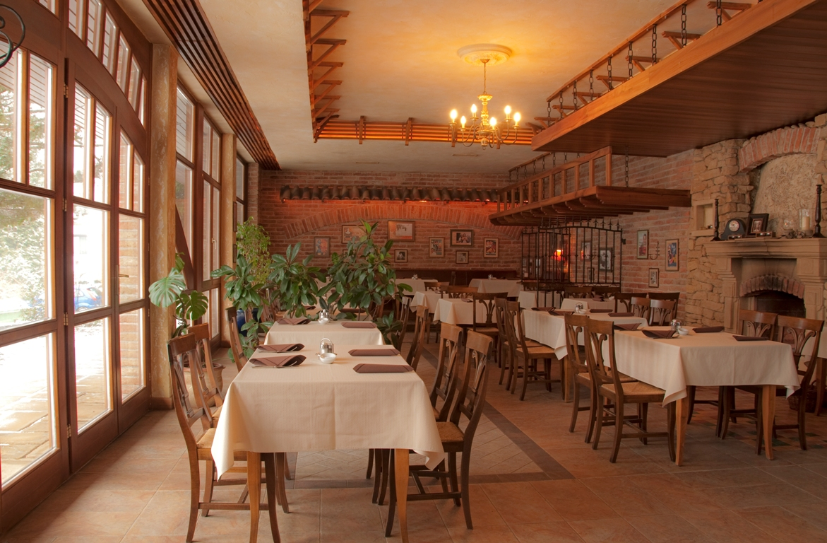 Chianti